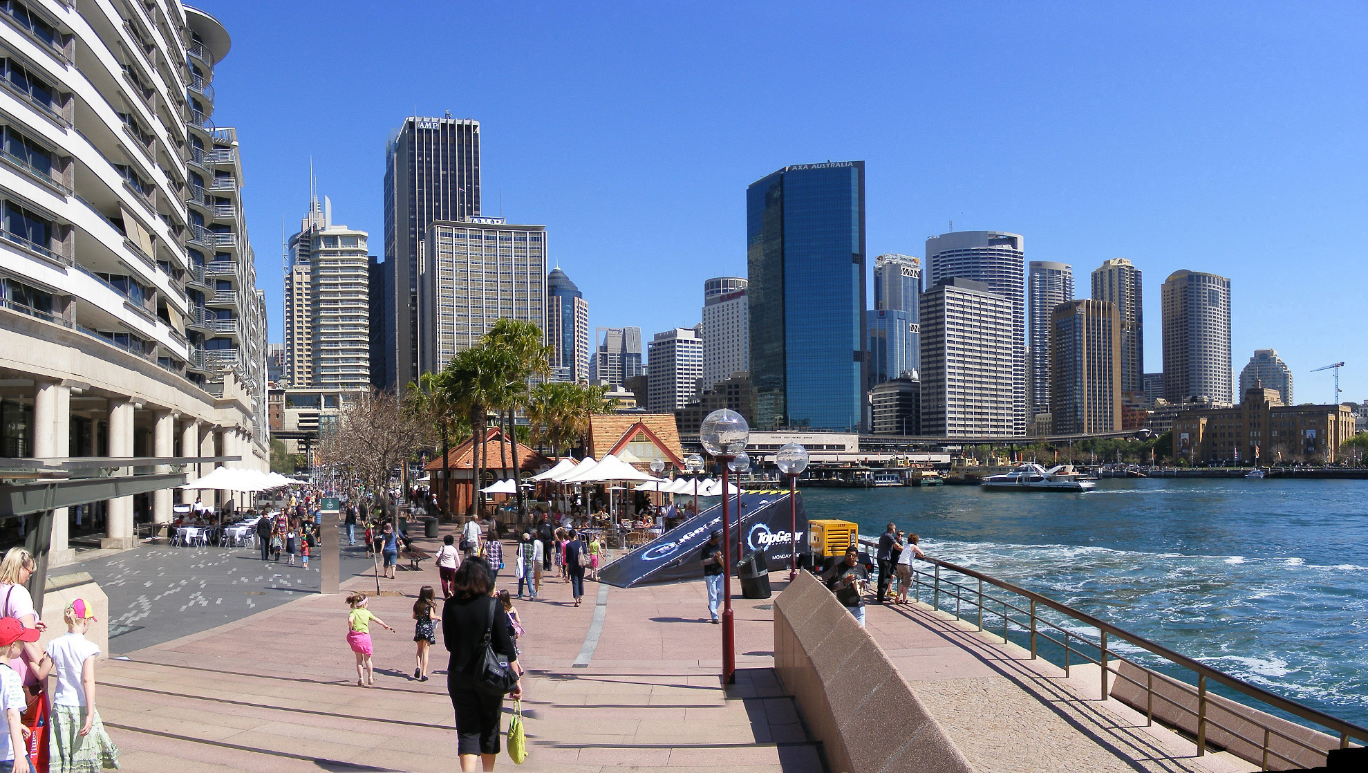 Circular Quay, New South Wales